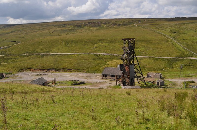 Groverake Lead/Fluorspar Mine, Data from Geograph: Description: The site here was first mined for lead; this wasn't highly sucessful. Three veins cross here: Greencleugh, Groverake and Red. The Burtree Pasture vein also continues to this point. Later operations with lead and fluorspar... more ICBM: 54.791769751182, -2.1640399412038 Location: 4 km from Allenheads, Northumberland, Great Britain.